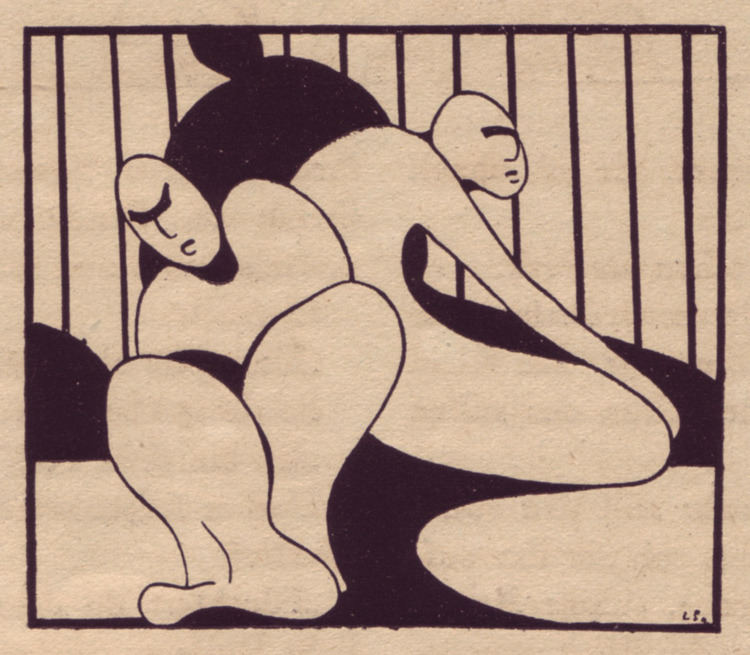 Gefangene (prisoners), drawing